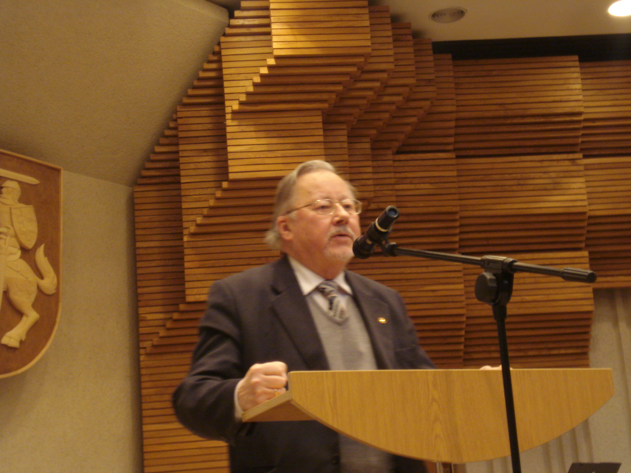 Vytautas Landsbergis